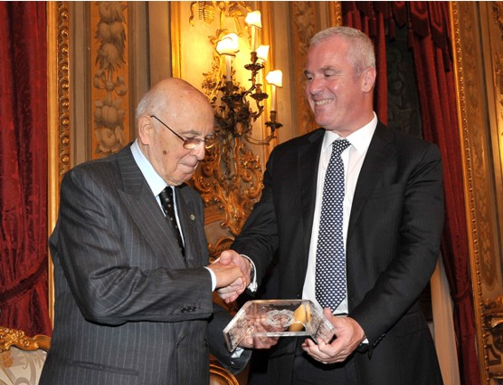 Adriano Ruchini with Giorgio Napolitano, June 2011